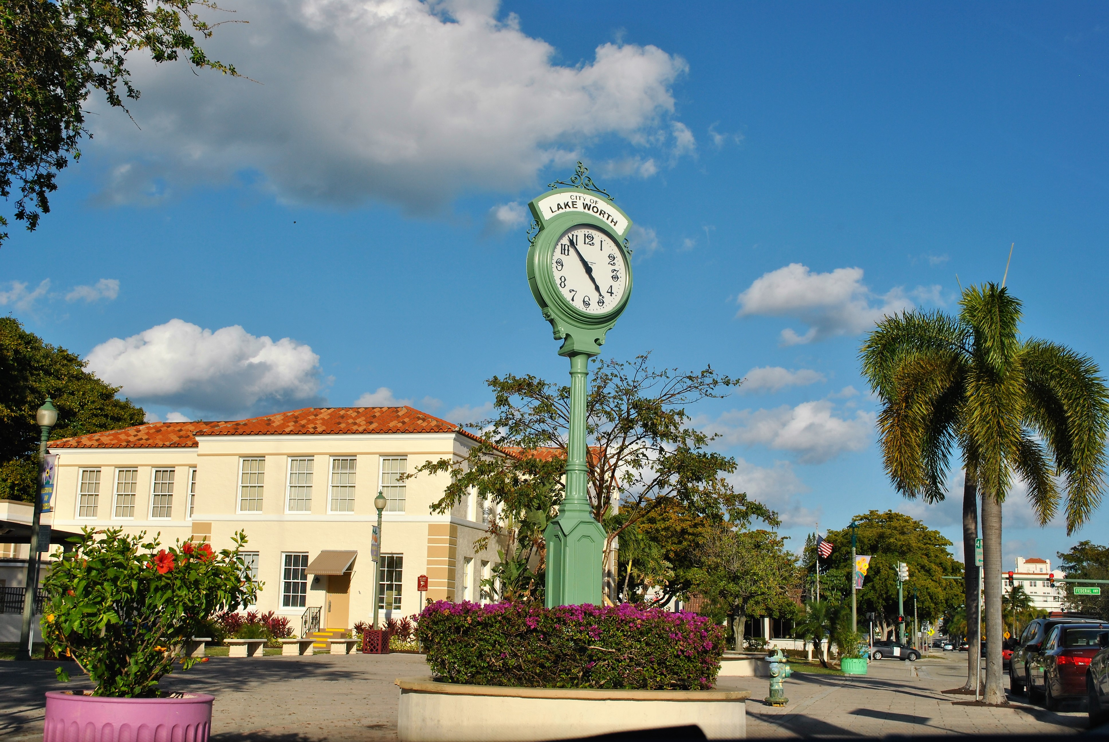 Image originally published in Queer Places: Retracing the Steps of LGBTQ people around the World Authored by Elisa Rolle